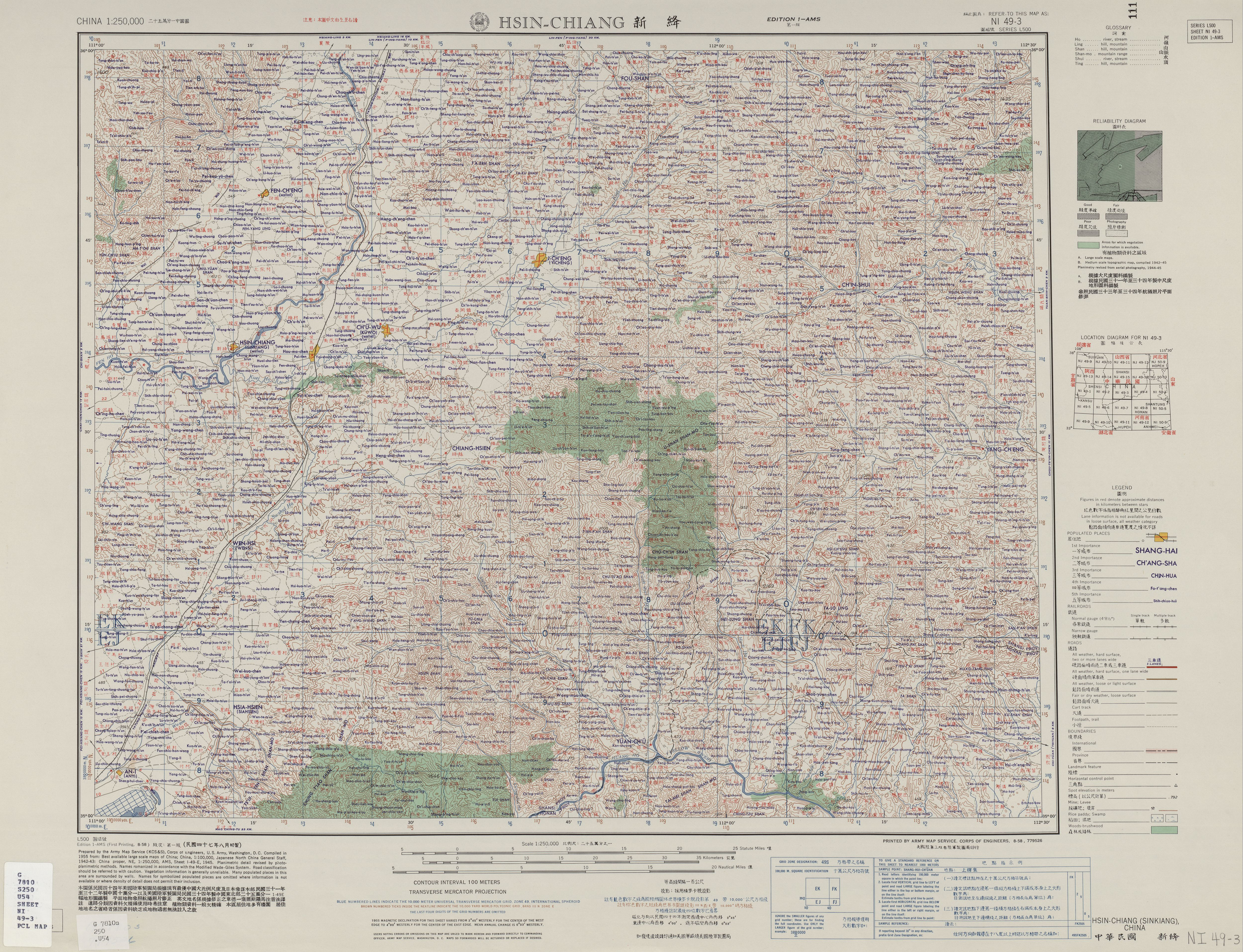 China AMS Topographic Maps